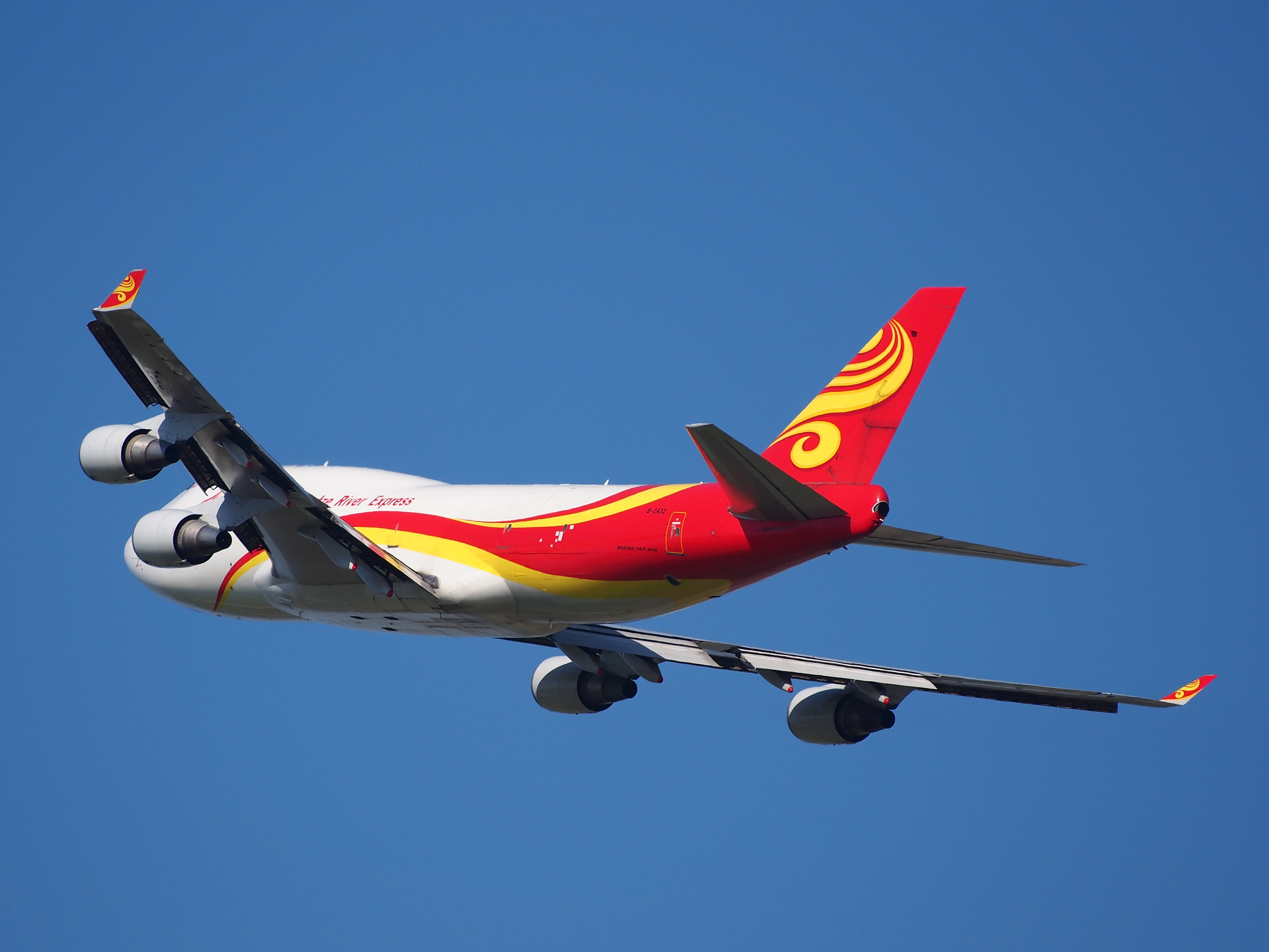 Photographed at Schiphol (AMS - EHAM), The Netherlands.